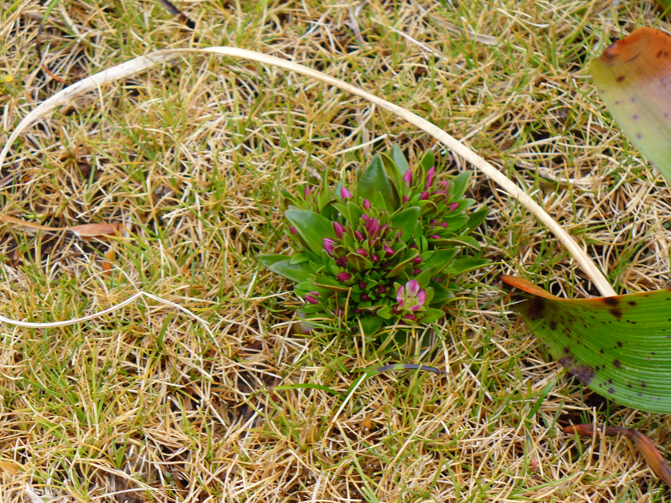 Gentianella antarctica, a companion plant in megaherb communities, growing on Campbell Island, one of the sub-antarctic islands of New Zealand. This photograph was taken by and originally posted to flikr by Twiddleblatt, under the title 'Gentianella Antarctica'.